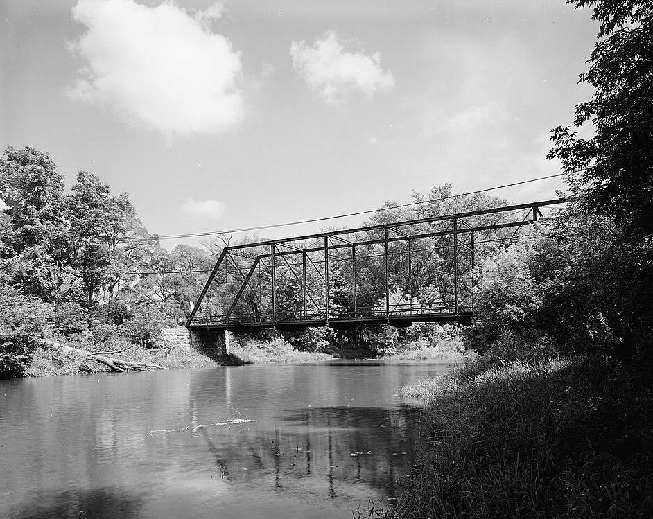 Turtleville Iron Bridge, Spanning Turtle Creek, on Lathers Road, Beloit vicinity (Rock County, Wisconsin) Object location42° 33′ 56″ N, 88° 57′ 52″ W